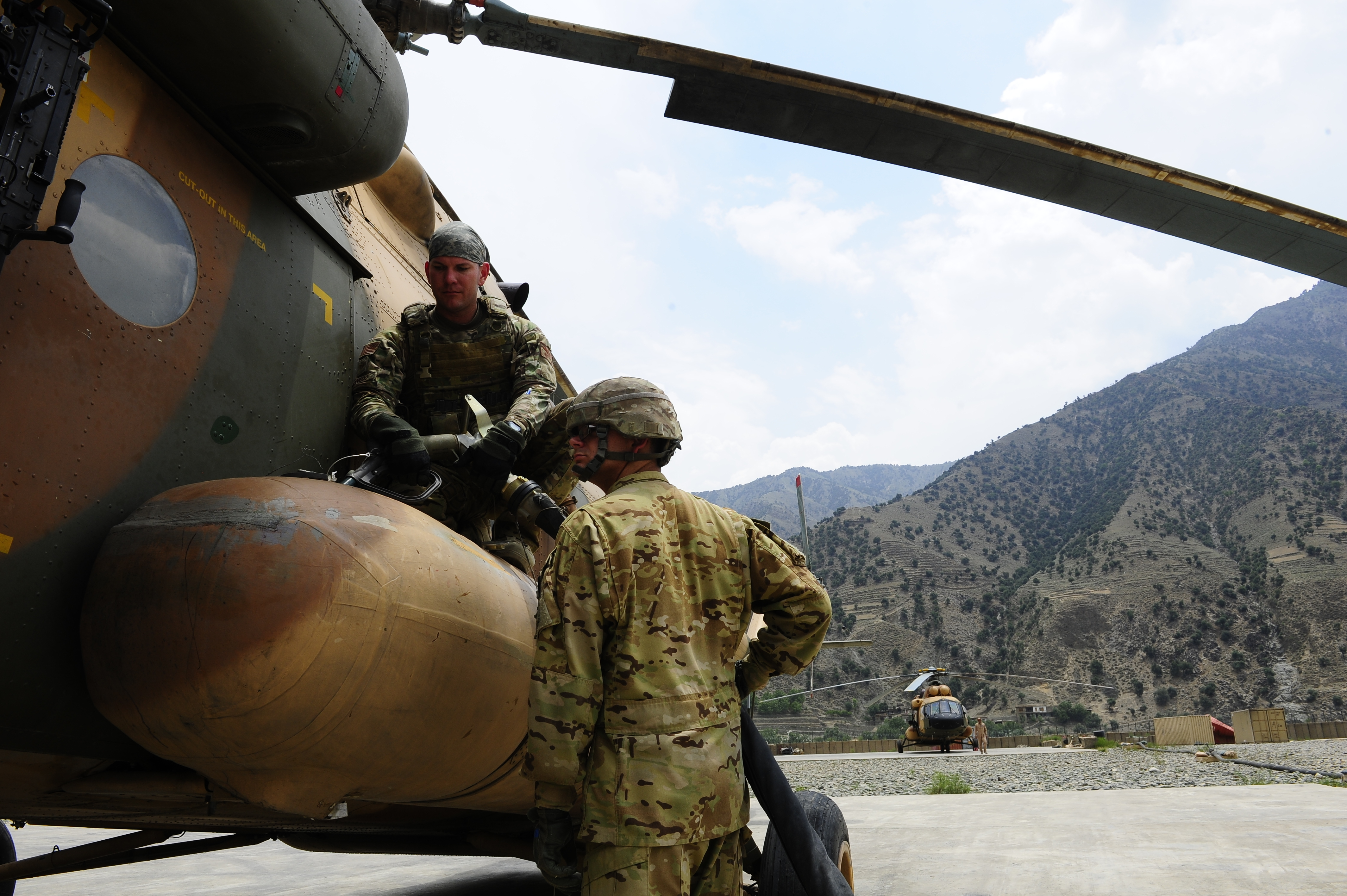 U.S. Air Force Tech. Sgt. Miguel Acevedo, top, fills the fuel tank of an Mi-17 helicopter for a resupply mission July 8, 2012, at Forward Operating Base Bostick in Kunar province, Afghanistan. The joint mission of the Afghan air force and U.S. Air Force Mi-17 helicopter crews was to resupply Afghan forces in remote locations. (U.S. Air Force photo by Staff Sgt. Quinton Russ/Released)